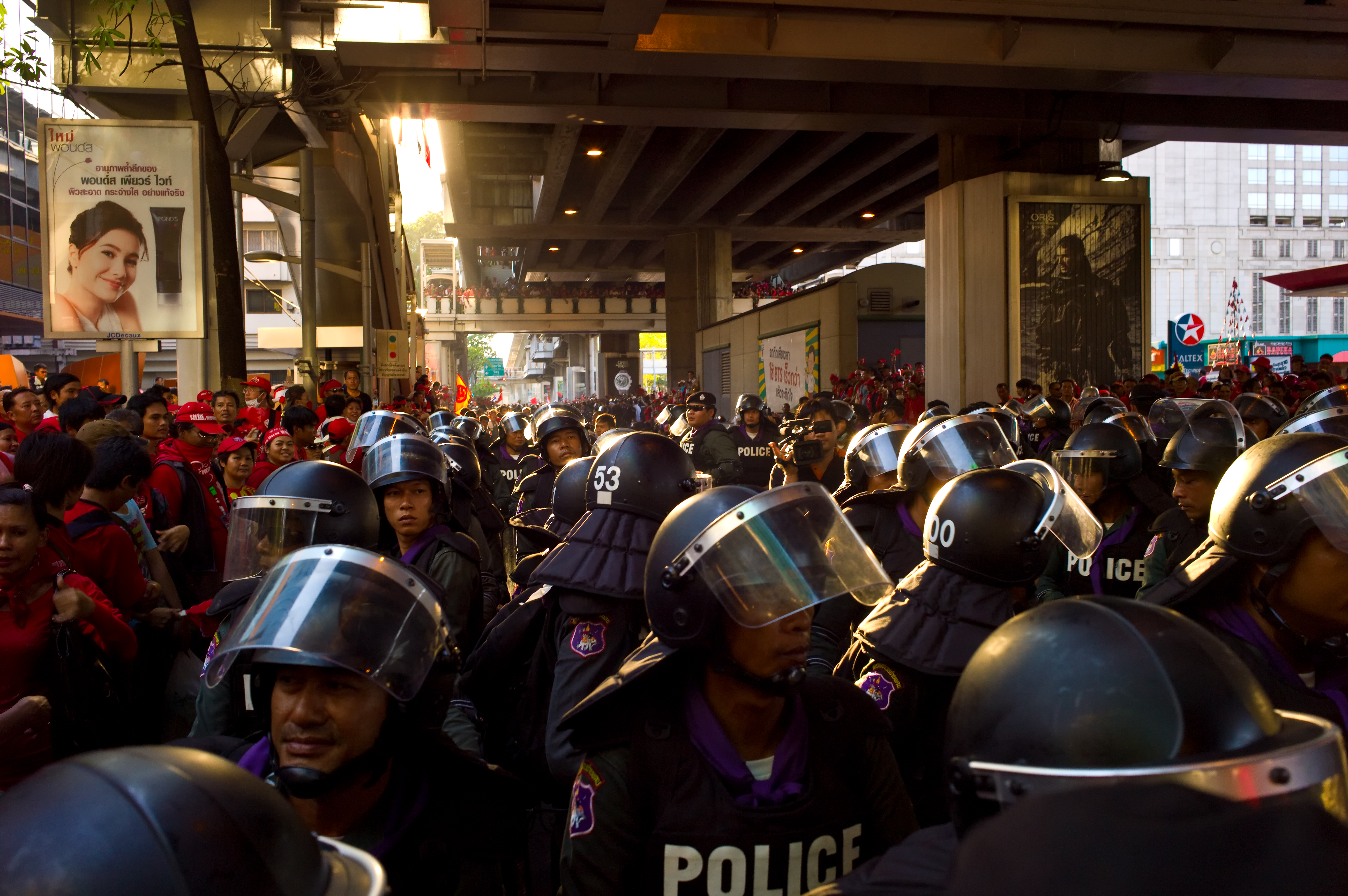 Police an Redshirts Bangkok Protests - March - May 2010.